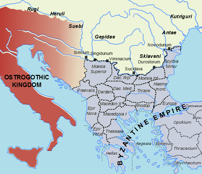 Southeastern Europe c. 520 AD. The Byzantine Empire, Ostrogothic kingdom, and 'barbarian' polities.